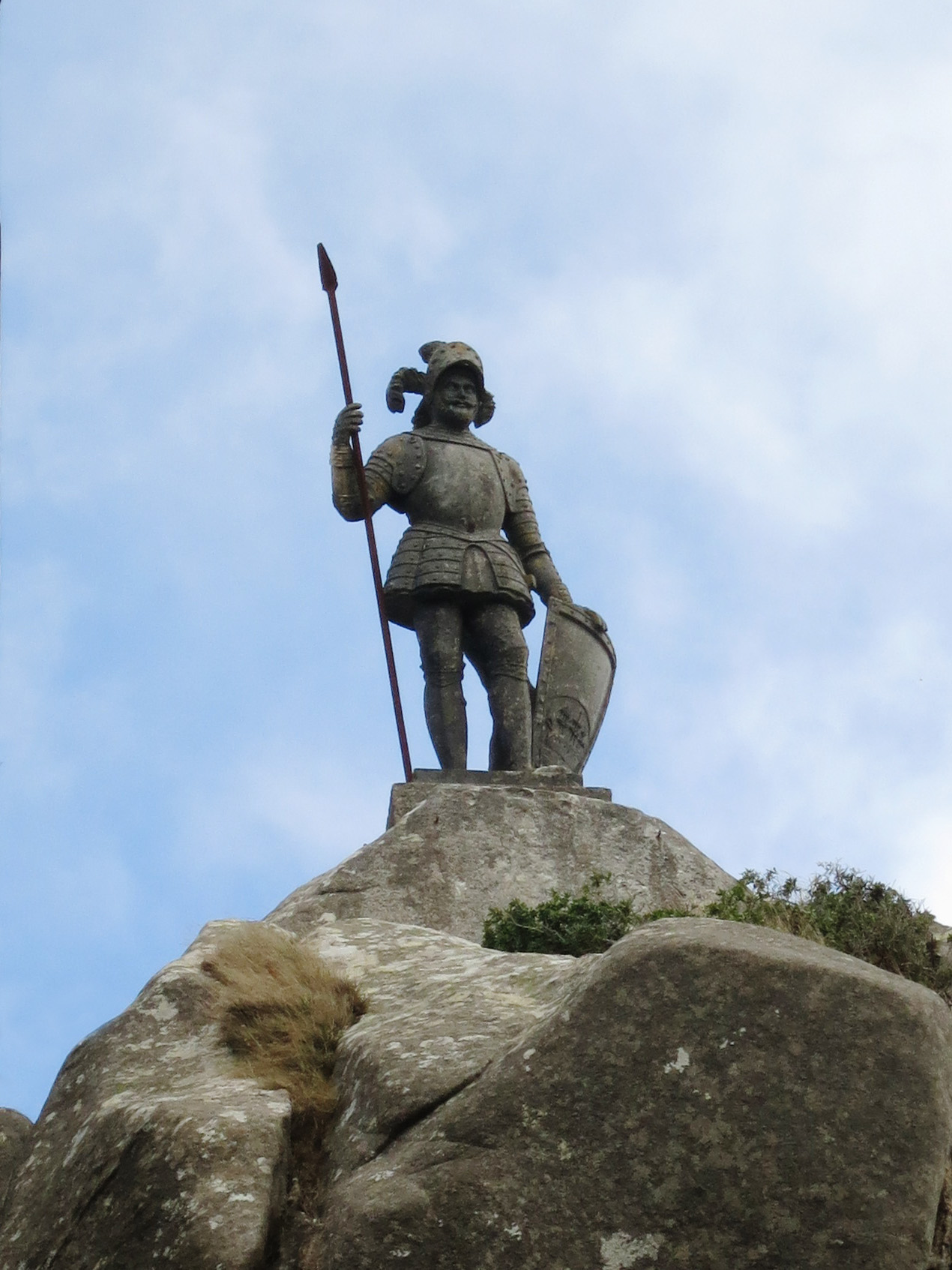 Ernesto Rusconi, Estátua do Guerreiro 1848 bronze